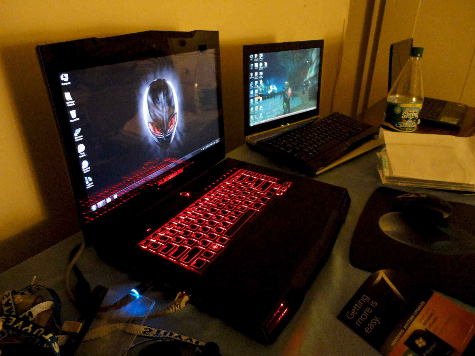 Alienware M15x laptop computer with red glowing.